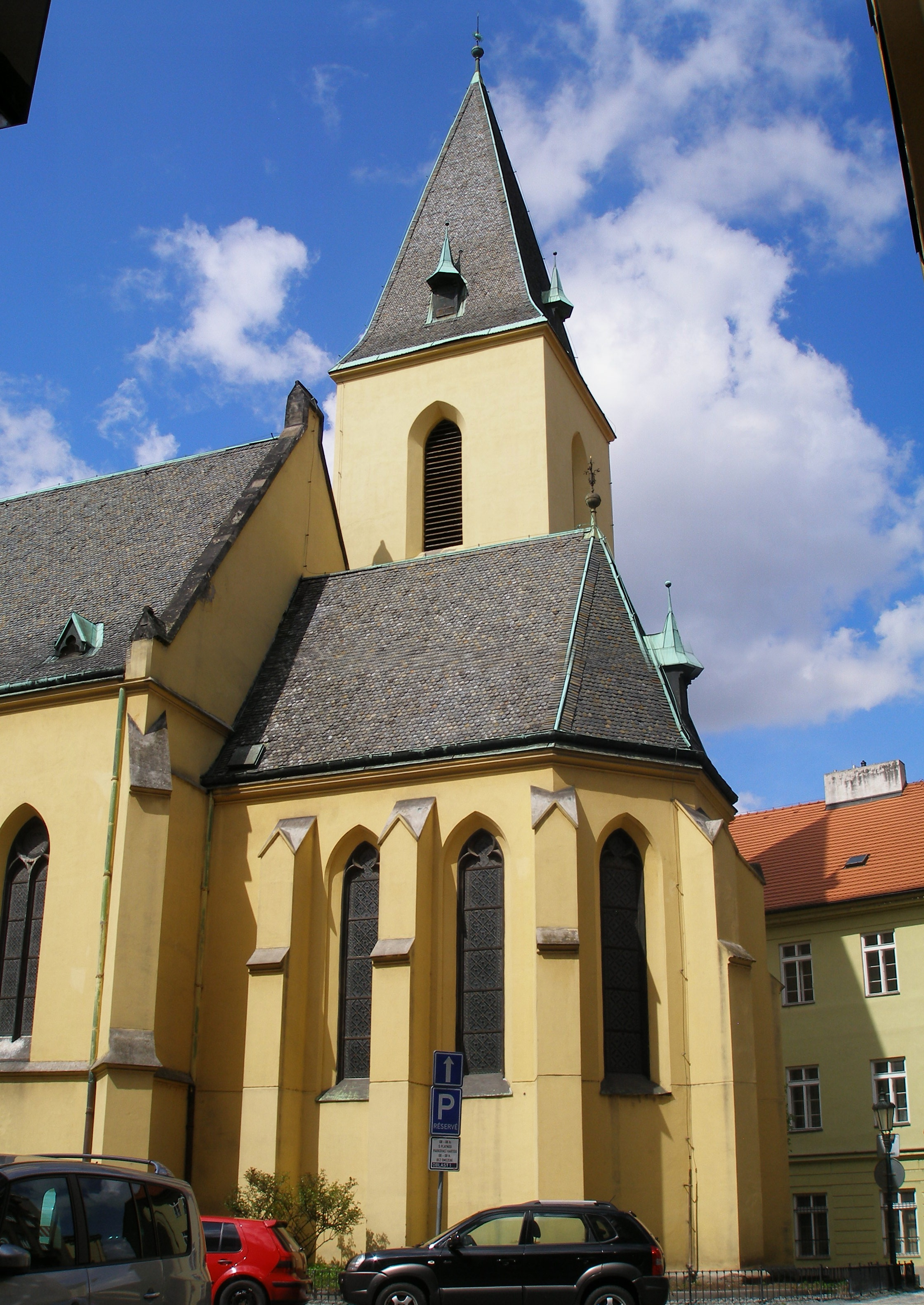 Tower at church of Saint Kliment in Prague, Klimentská street.